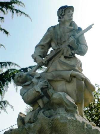 The sculpture by Louis Henri Leclabart on the Marcelcave monument aux morts. A wounded soldier is defended by his brother in arms. Marcelcave is in the Somme region of France not far from Villers-Bretonneux.